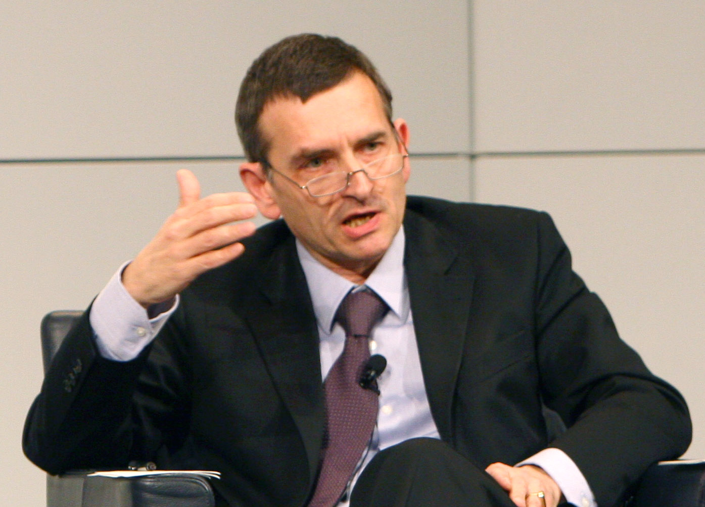 47th Munich Security Conference 2011: Prof. Dr. Volker Perthes, Director, German Institute for International and Security Affairs.